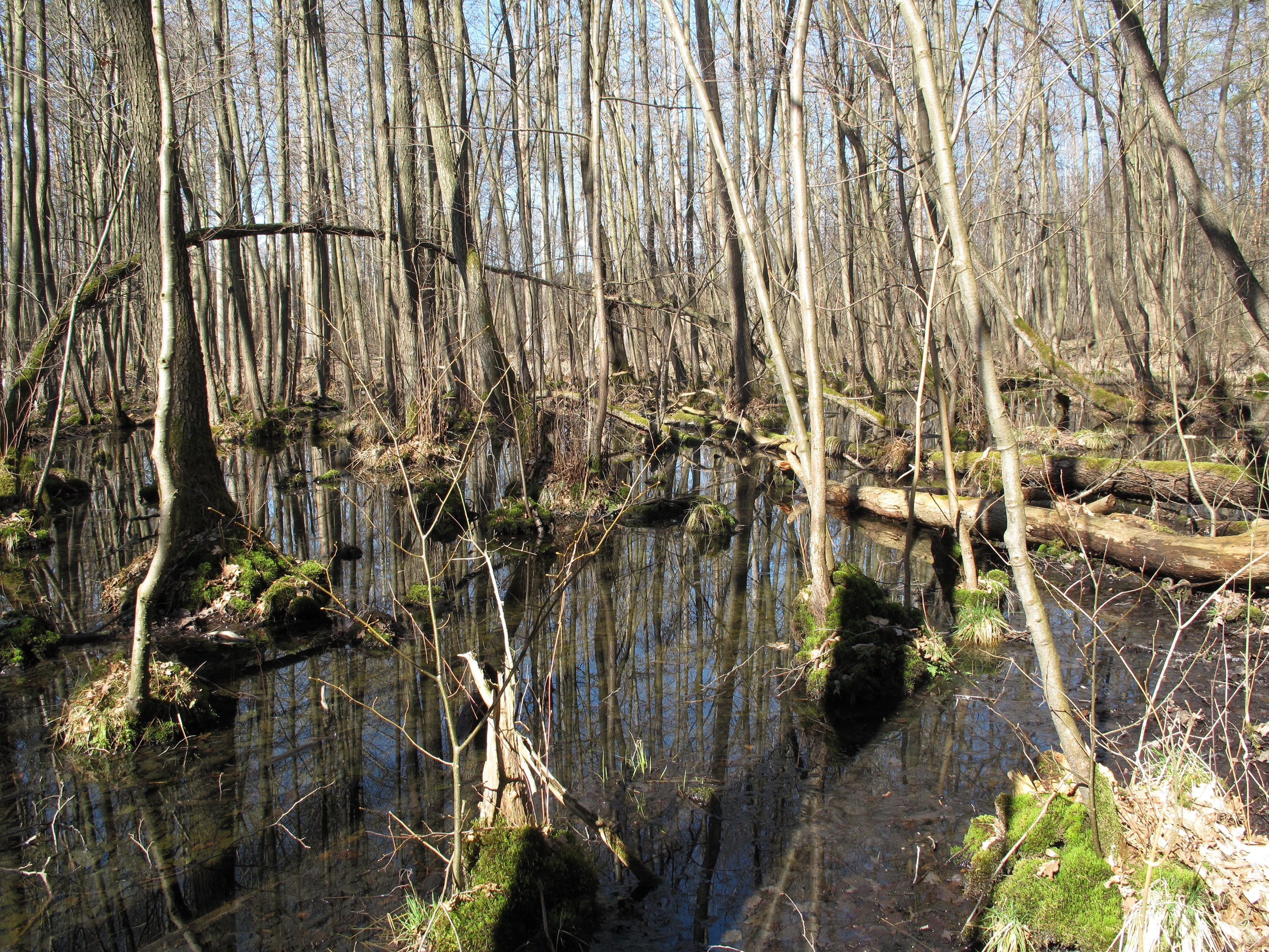 Carr (landform)Alder carr just before the northern bank of the Weiße See. The Weißer See (german for: white lake) is a lake in Buckow, District Märkisch-Oderland, Brandenburg, Germany. The lake covers 5,8 hectare and has a depth of max. 3,5 meters. Separated by a small land spit the lake borders to the southeastern bay of the Schermützelsee. The lake is situated in the hill country „Märkische Schweiz“ and in the Märkische Schweiz Nature Park.